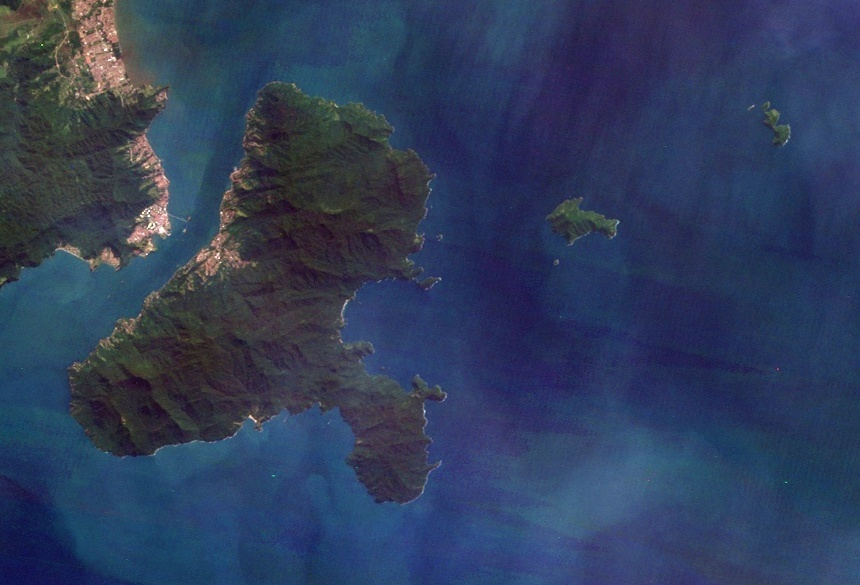 Satellite image of the Ilhabela archipelago, on the coast of São Paulo state, Brazil. Major islands from left to right: São Sebastião island, Búzios island and Vitória island.